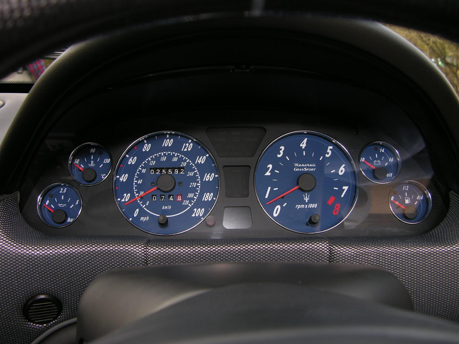 Maserati 4200 Coupe GranSport